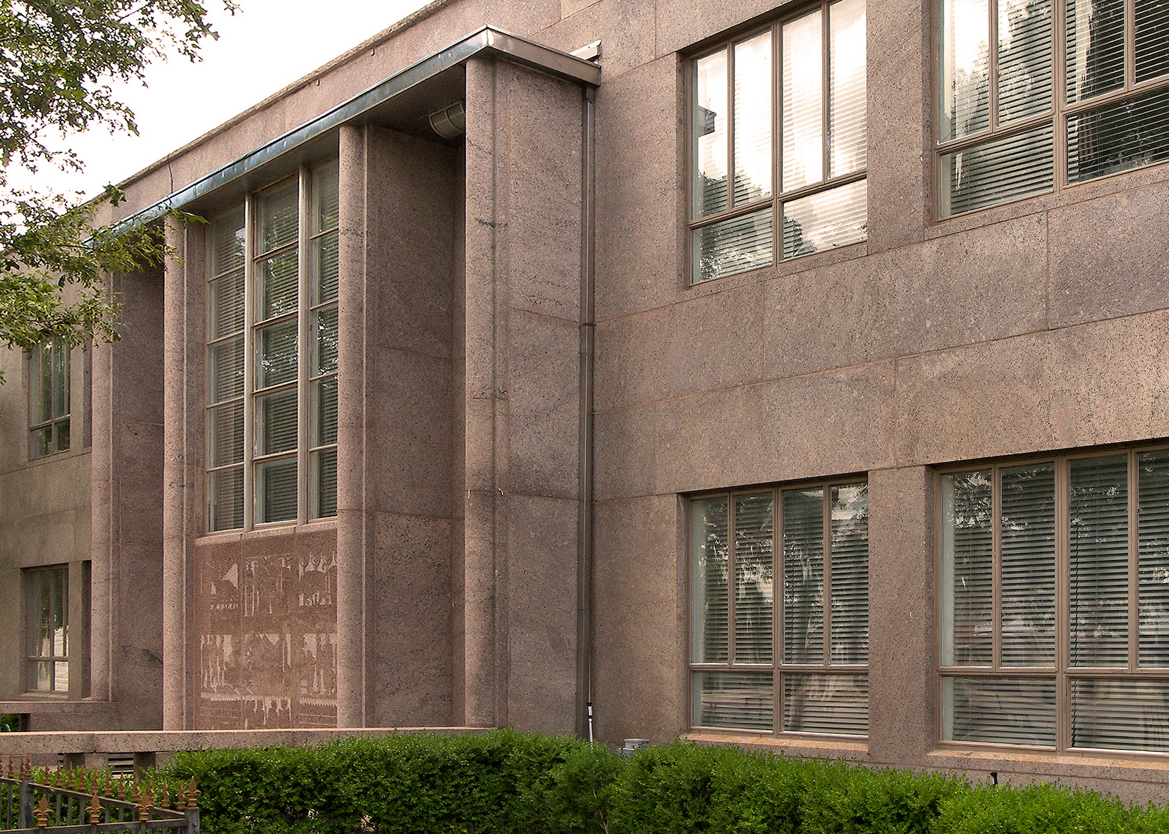 The Burnet County, Texas courthouse located at 220 S Pierce St, Burnet, Texas, United States. The building was listed on the National Register of Historic Places on November 15, 2000.